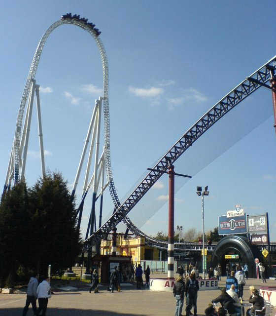 Stealth at Thorpe Park. This is Stealth, the latest thrill rollercoaster at Thorpe Park, taken on its first weekend open to the public. This coaster catapults the train from 0 to 80mph in 2.3 seconds giving just enough velocity to reach the peak of the 205 foot top-hat. The view from the top of the rest of the park is stunning but you have less than a second to enjoy it before you hurtle vertically down leveling out and into another zero gravity bunny hop before coming to an end. The ride lasts approximately 12 seconds but believe me that's an intense 12 seconds not easily forgotten, from the extreme acceleration of the launch to the final braking off the bunny hop!